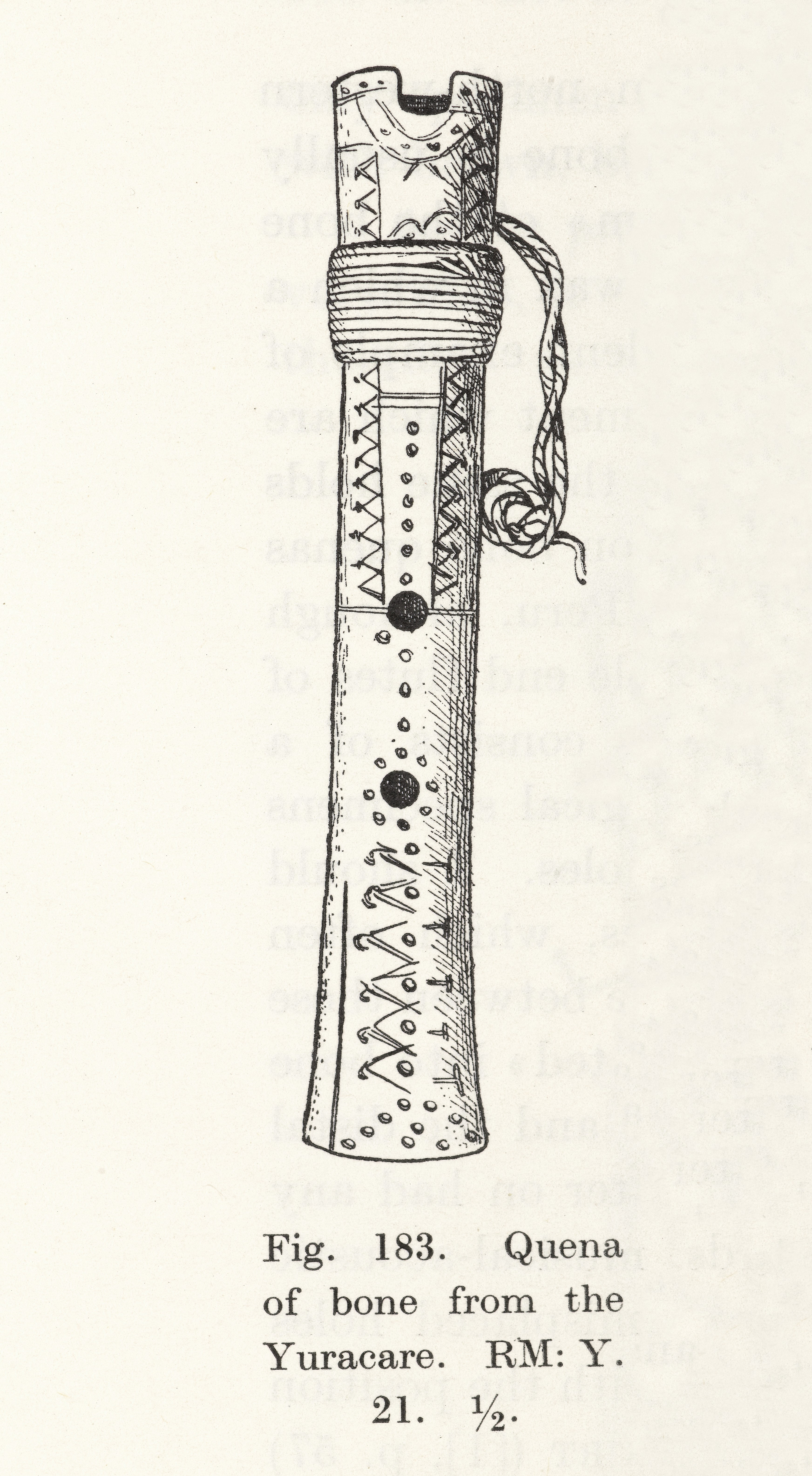 Musical instrument; quena of bone from the Yuracare in South America. General Collections Keywords: Indians, South American; Music